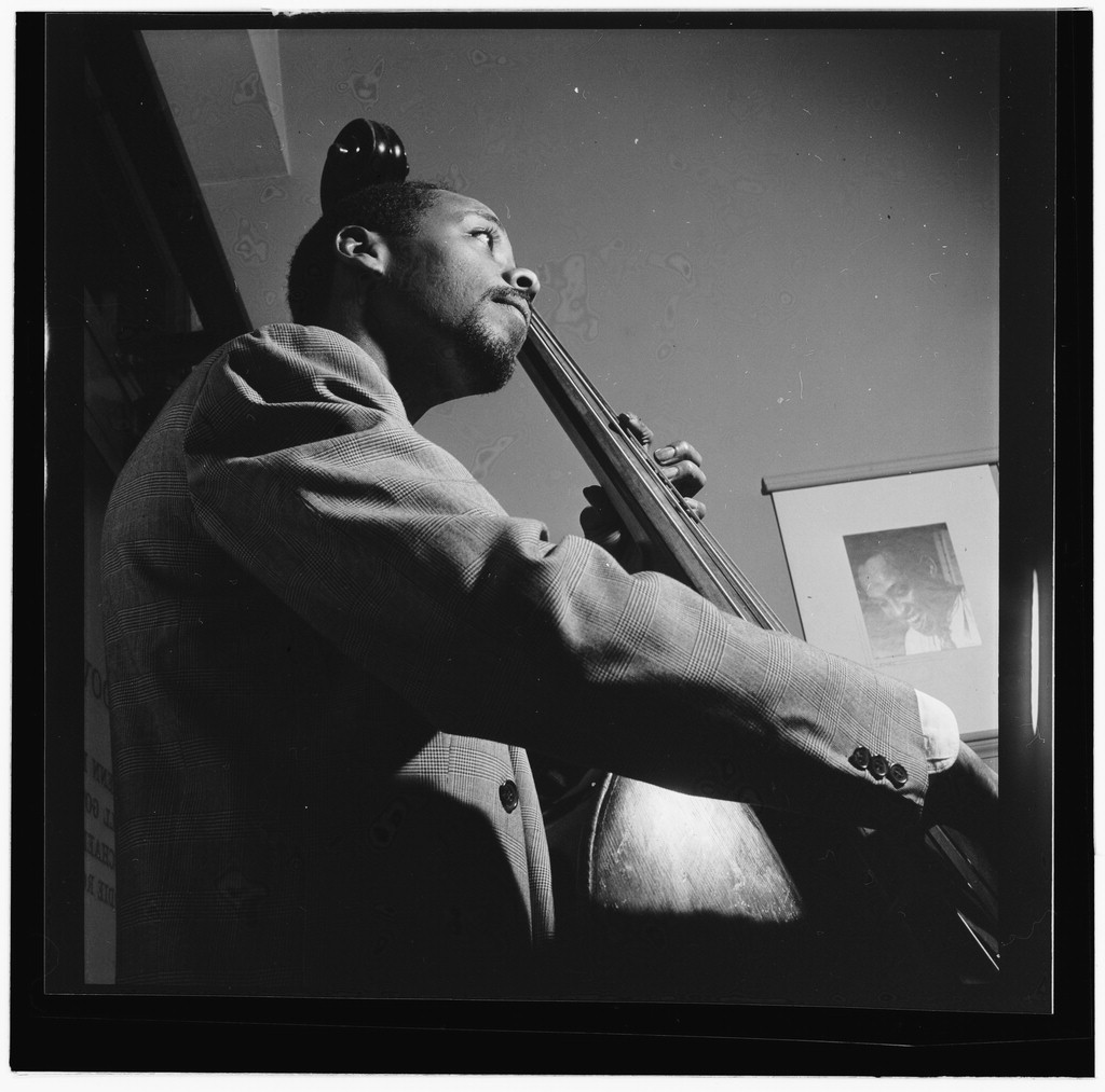 Gottlieb, William P., 1917-, photographer. [Portrait of Slam Stewart, William P. Gottlieb's office, New York, N.Y., between 1946 and 1948] 1 negative : b&w ; 2 1/4 x 2 1/4 in. Notes: Gottlieb Collection Assignment No. 307 Purchase William P. Gottlieb Forms part of: William P. Gottlieb Collection (Library of Congress). Subjects: Stewart, Slam Jazz musicians--1940-1950. Double bassists--1940-1950. Format: Portrait photographs--1940-1950. Film negatives--1940-1950. Rights Info: Mr. Gottlieb has dedicated these works to the public domain, but rights of privacy and publicity may apply. Repository: (negative) Library of Congress, Prints & Photographs Division, Washington D.C. 20540 USA, Part Of: William P. Gottlieb Collection (DLC) 99-401005 General information about the Gottlieb Collection is available at Persistent URL: Call Number: LC-GLB23- 1524 This work is from the William P. Gottlieb collection at the Library of Congress. Rights and restrictions.In accordance with the wishes of William Gottlieb, the photographs in this collection entered into the public domain on February 16, 2010.